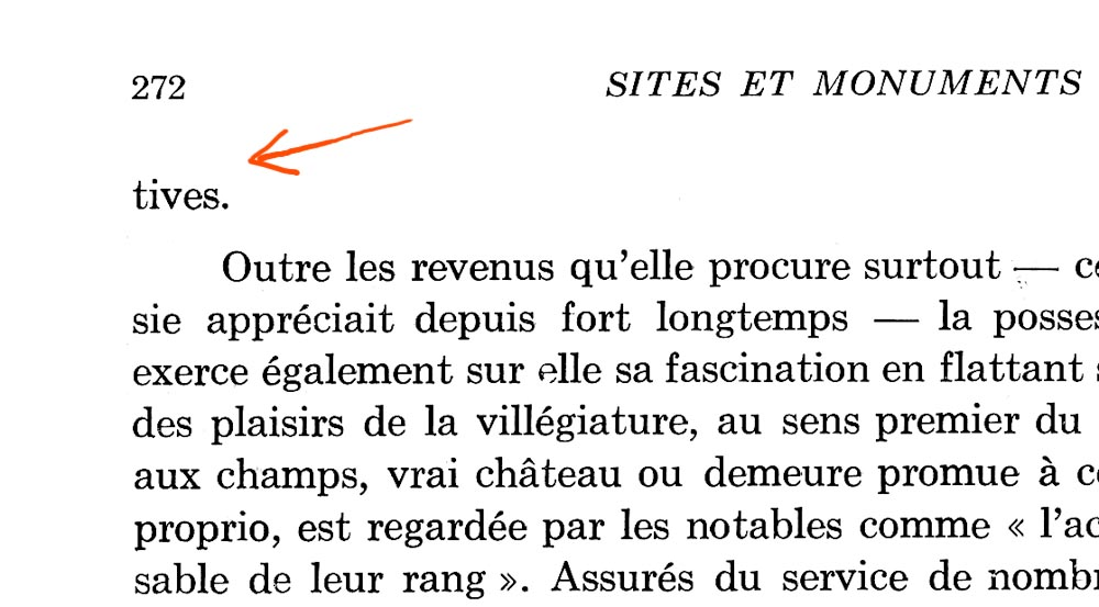 Widow line, typographic error